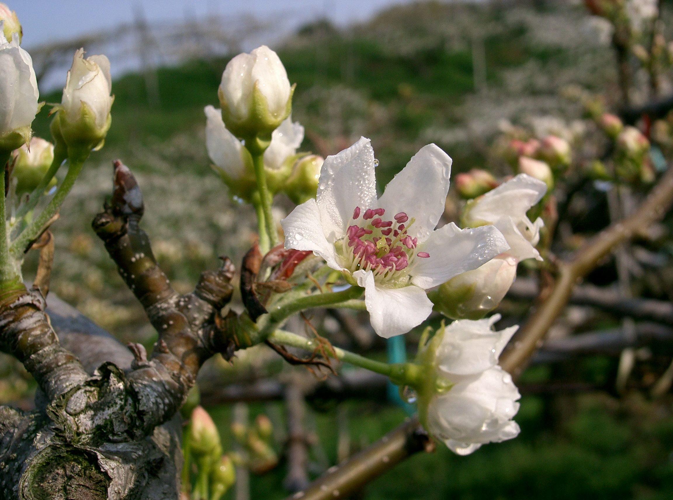 Pyrus pyrifolia var. culta, Place:Osaka Prefecture, Japan